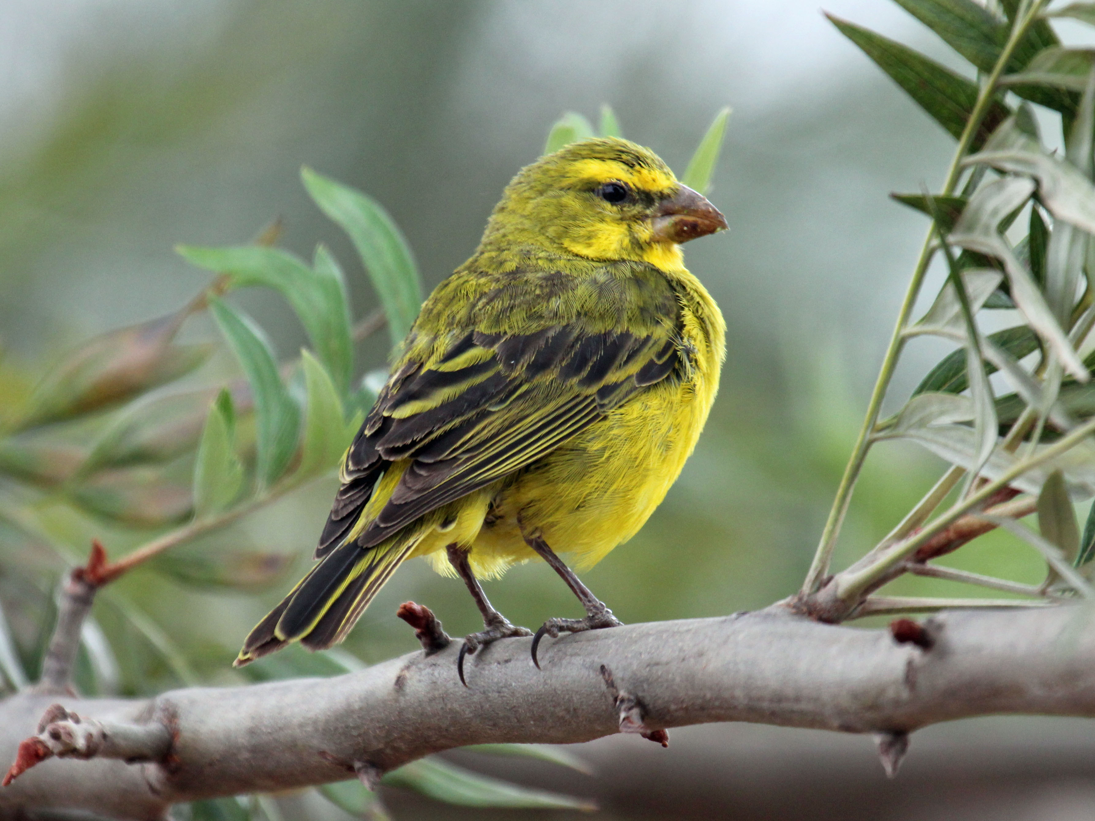 Brimstone Canary (Serinus sulphuratus sharpi) - slightly north of Masai Mara in Kenya.